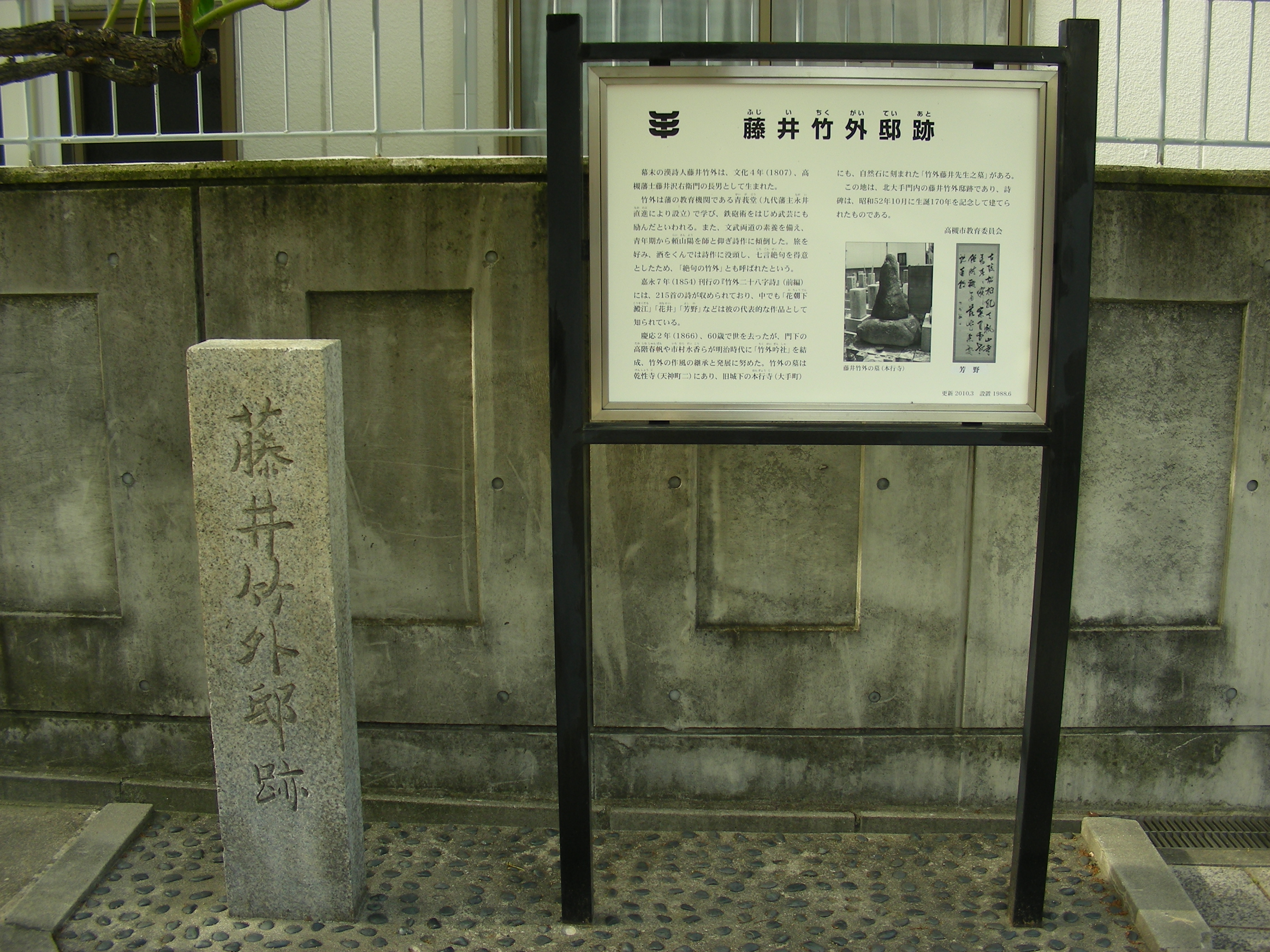 The remains of residence of Fujii Chikugai